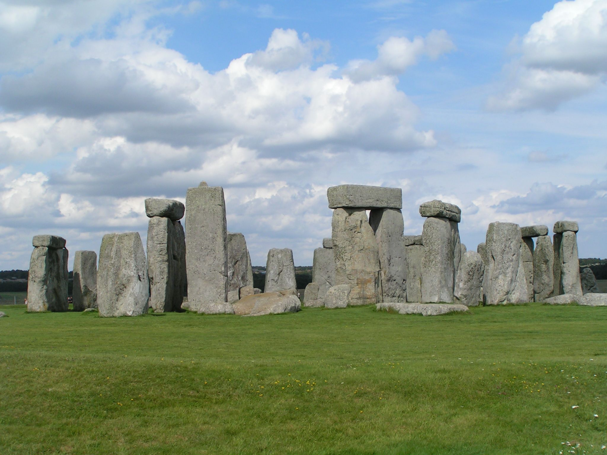 Stonehenge, GB